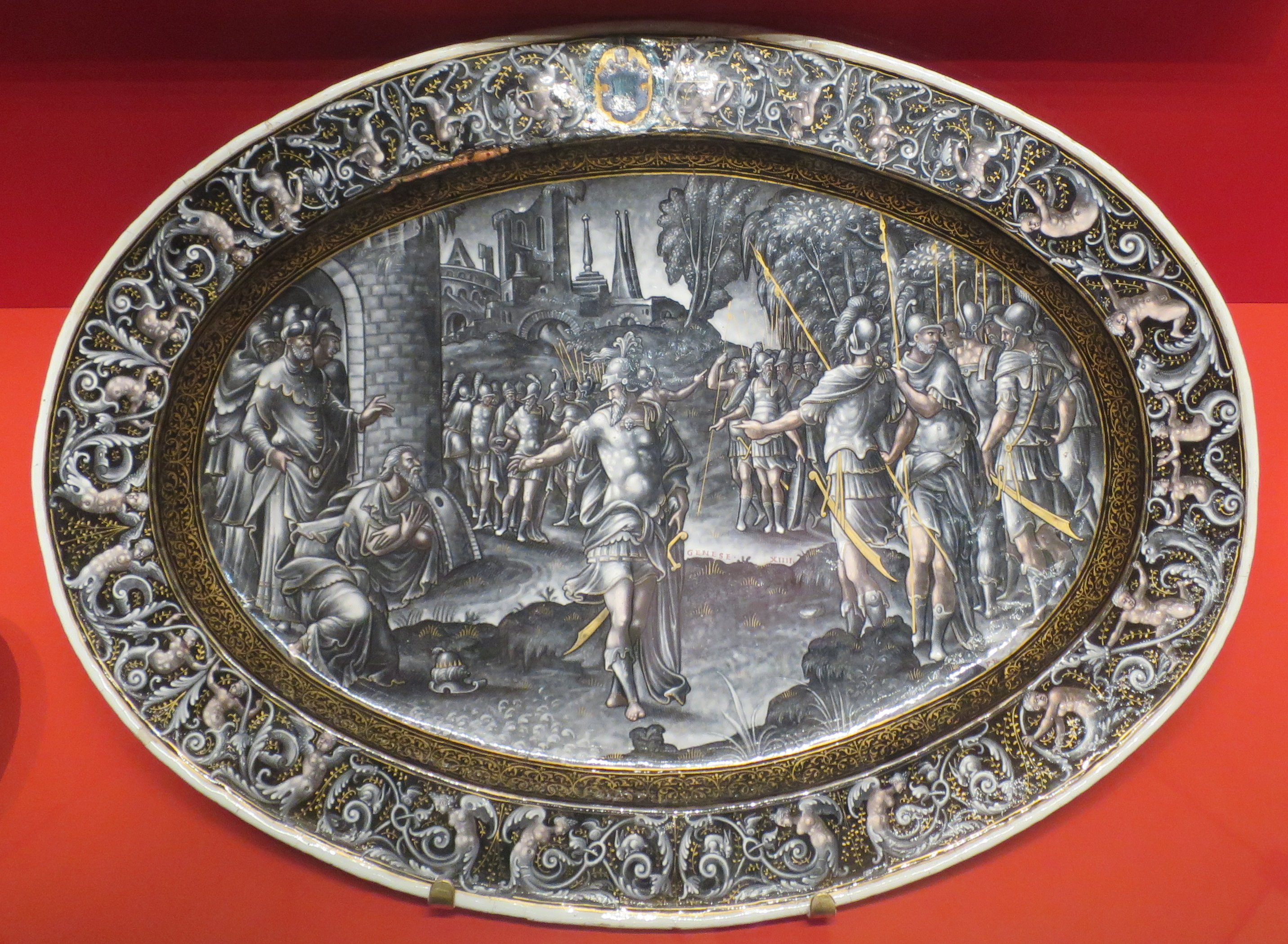 Dish with Abraham Rejecting the Gifts of the King of Sodom by Pierre Reymond, 1577, The Hermitage